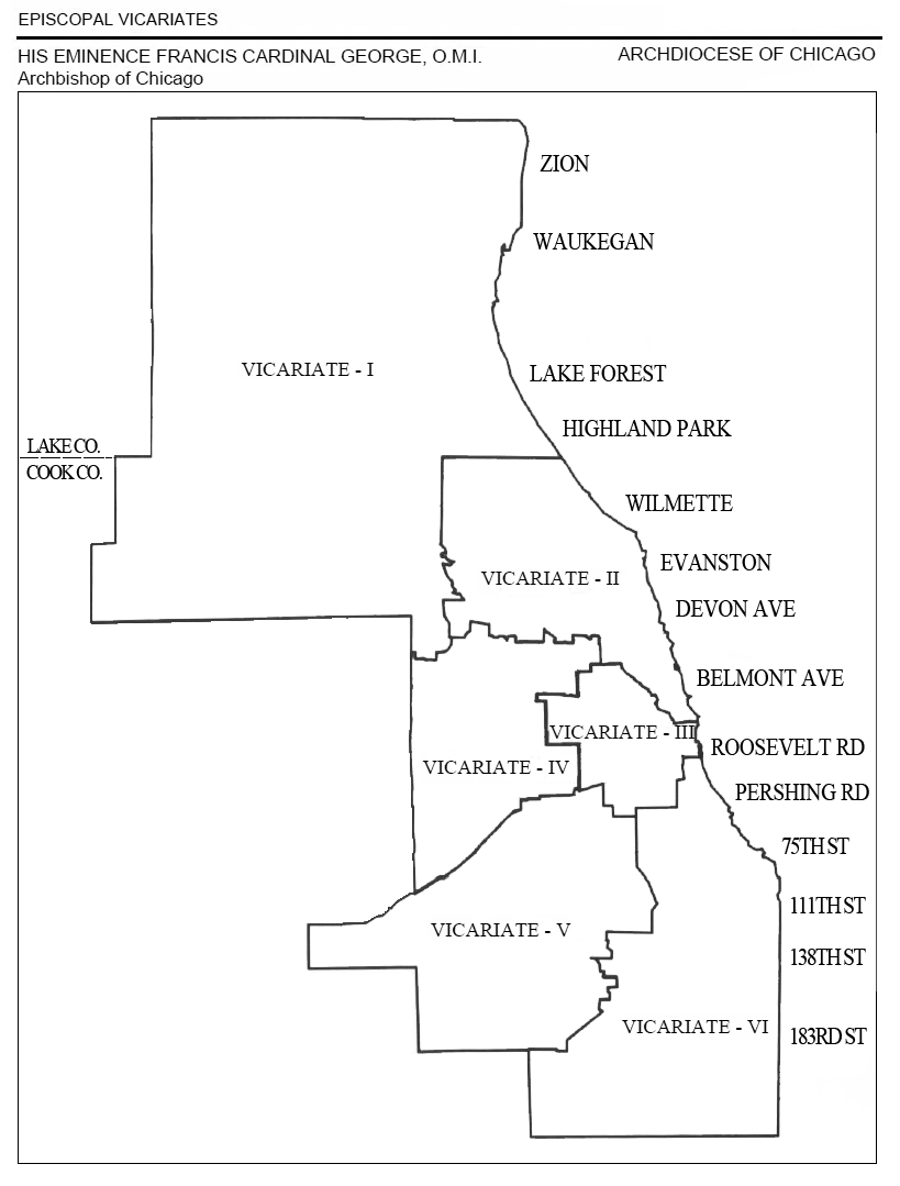 Map of the Archdiocese of Chicago with vicariate boundaries.